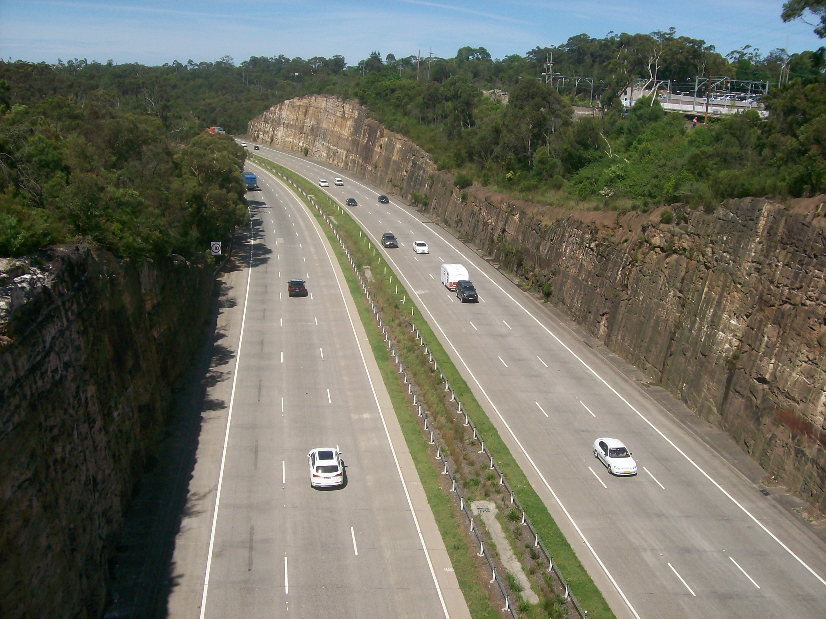 Sydney - Newcastle freeway south bound at Berowra